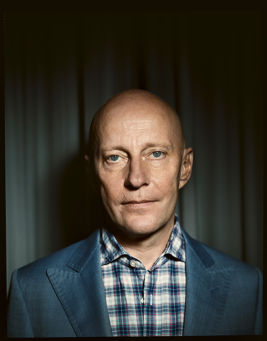 Andreas Fux, photographed by Andreas Mühe, 2014